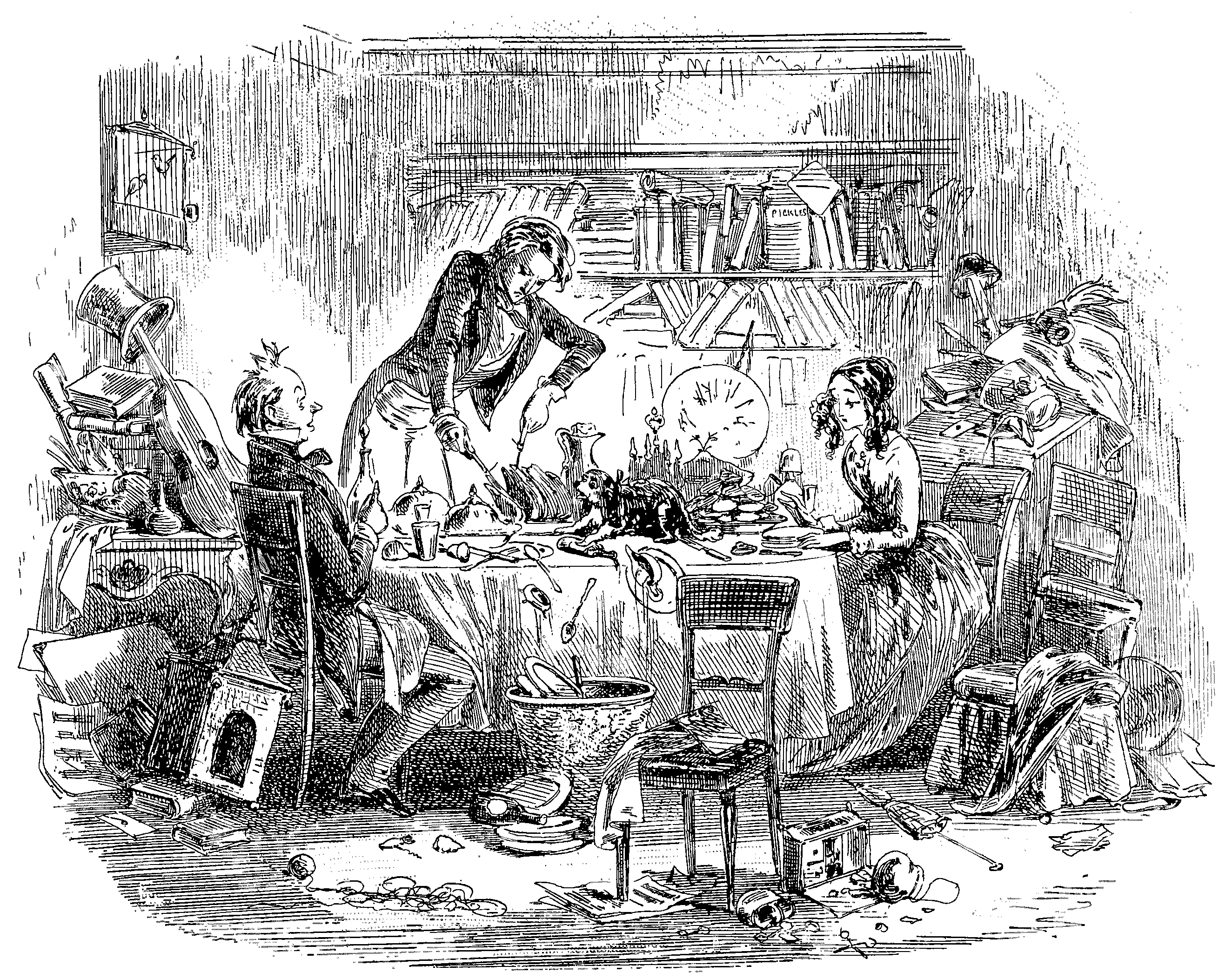 OUR HOUSEKEEPING